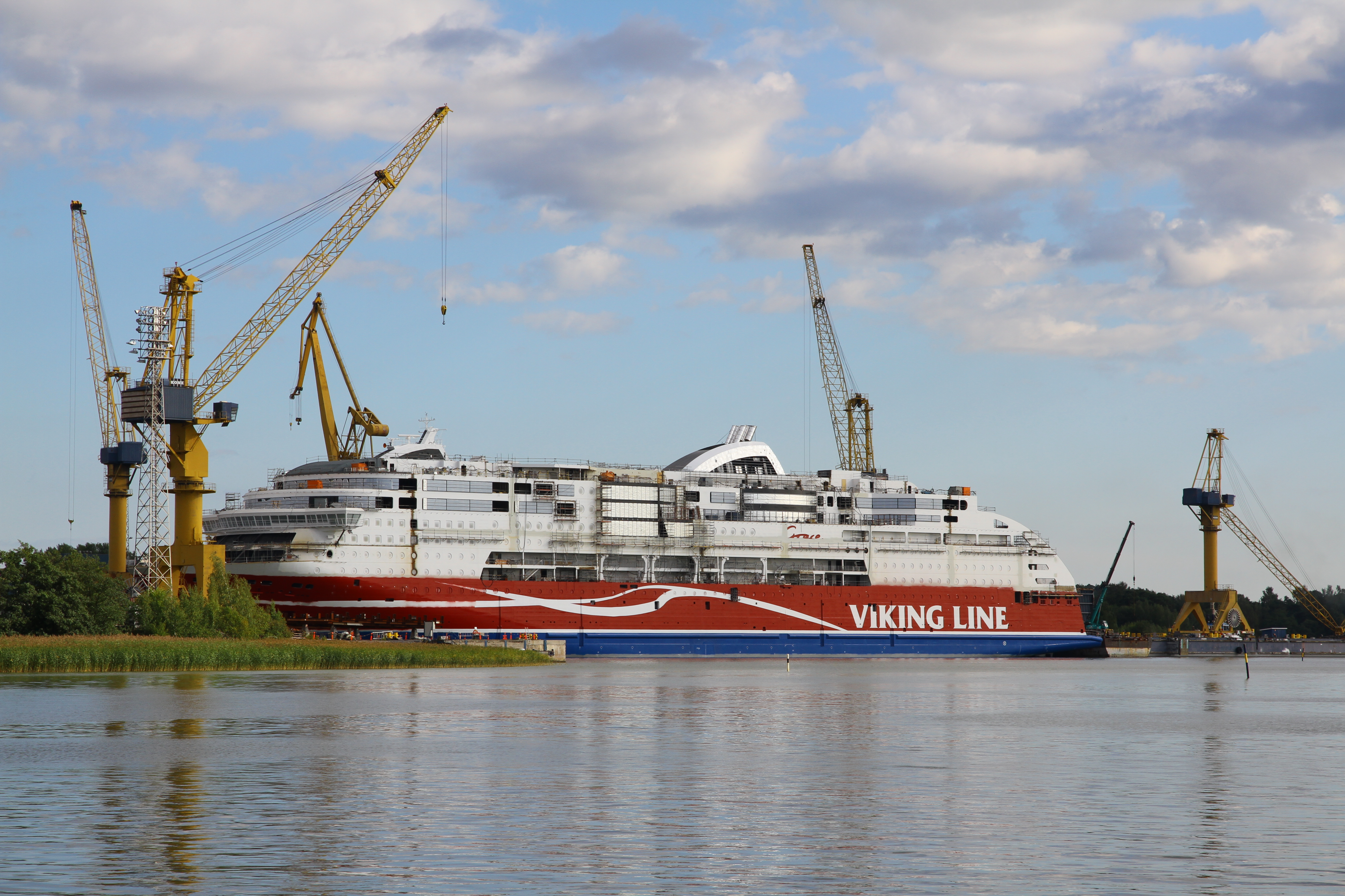 MS Viking Grace under construction at STX Europe, Turku, Finland.